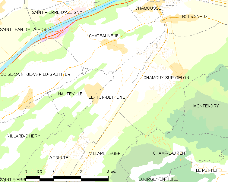 Map of French municipality